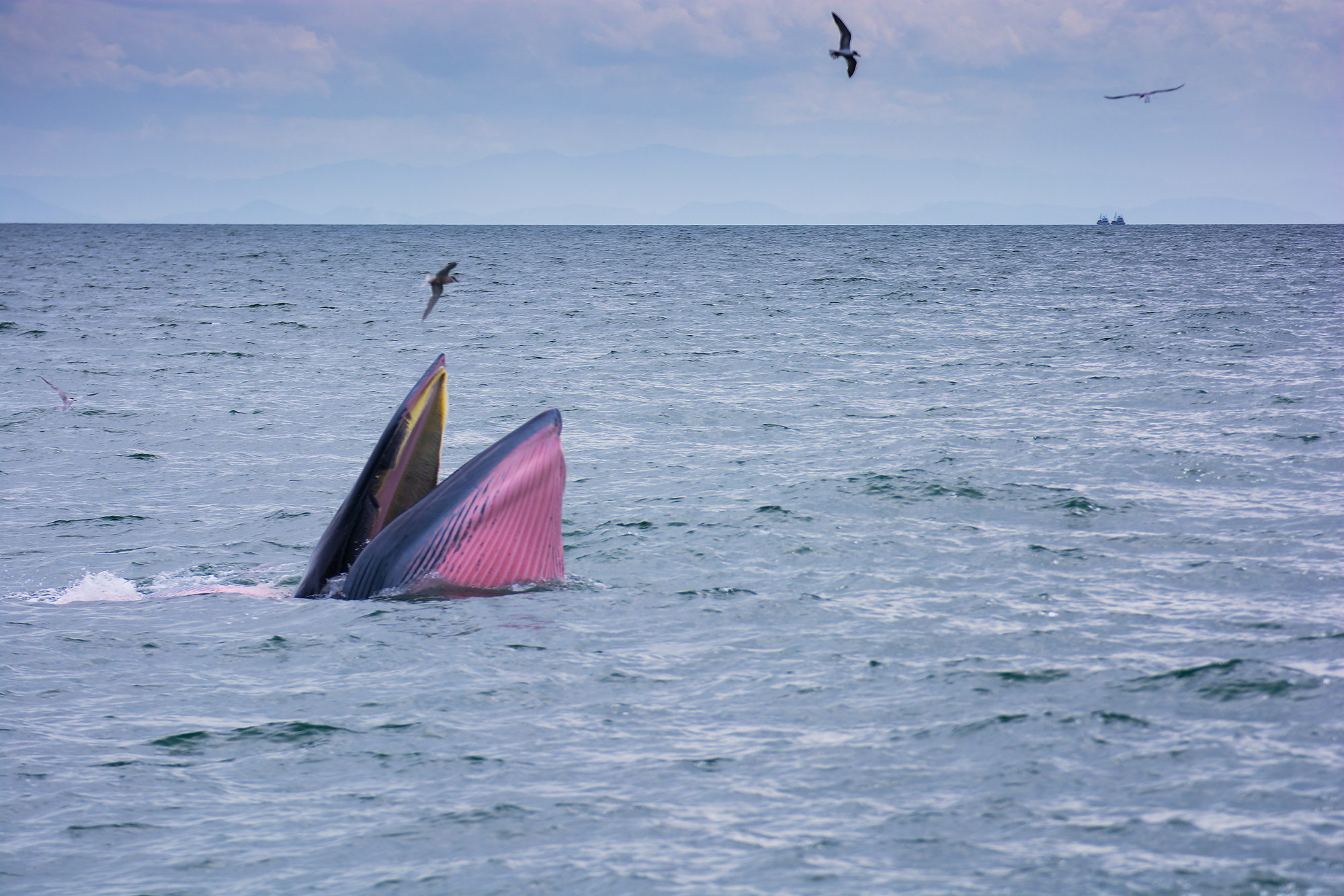 A Bryde's whale off the coast of Bang Tapun, Phetchaburi, Thailand